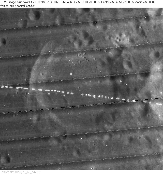 Bilharz crater on the LO-IV-053H image. The rim of 29-km Atwood is partially visible on the right.